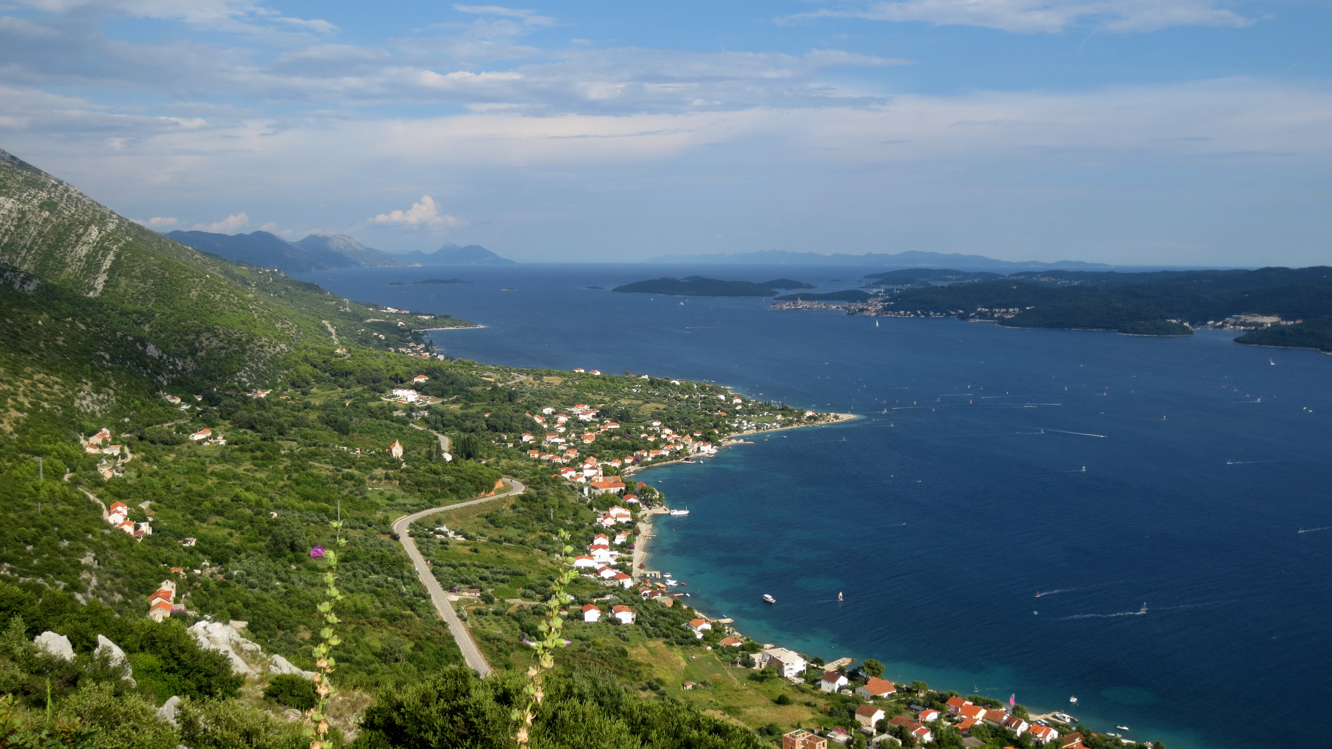 Viganj overview